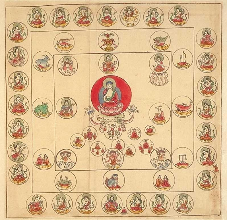 Hokuto mandara (mandala composed of astrological gods)